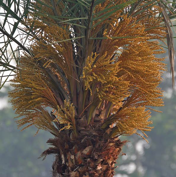 Wild Date Palm Phoenix sylvestris at Narendrapur near Kolkata, West Bengal, India.